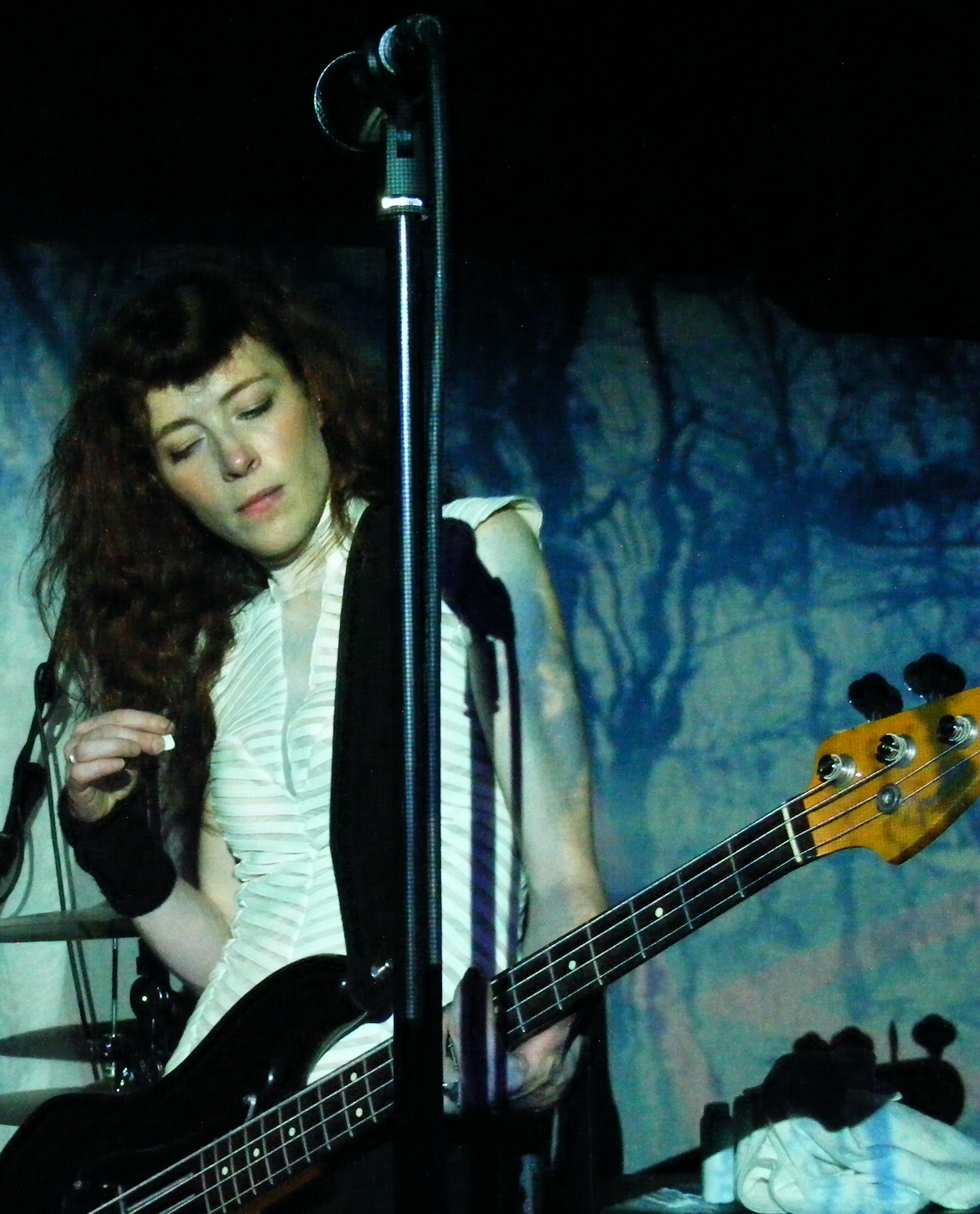 Melissa Auf der Maur at the Ruby Lounge, Manchester, on Sunday the 14th of November 2010. Cropped from Melissa Auf der Maur - Manchester.jpg.